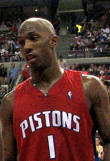 Photo of the Detroit Pistons Chauncey Billups.